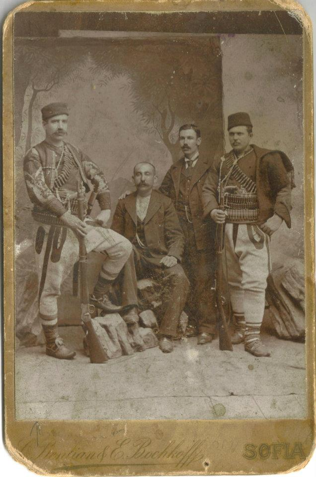 potrait of Mirche Acev OROVCHANEC